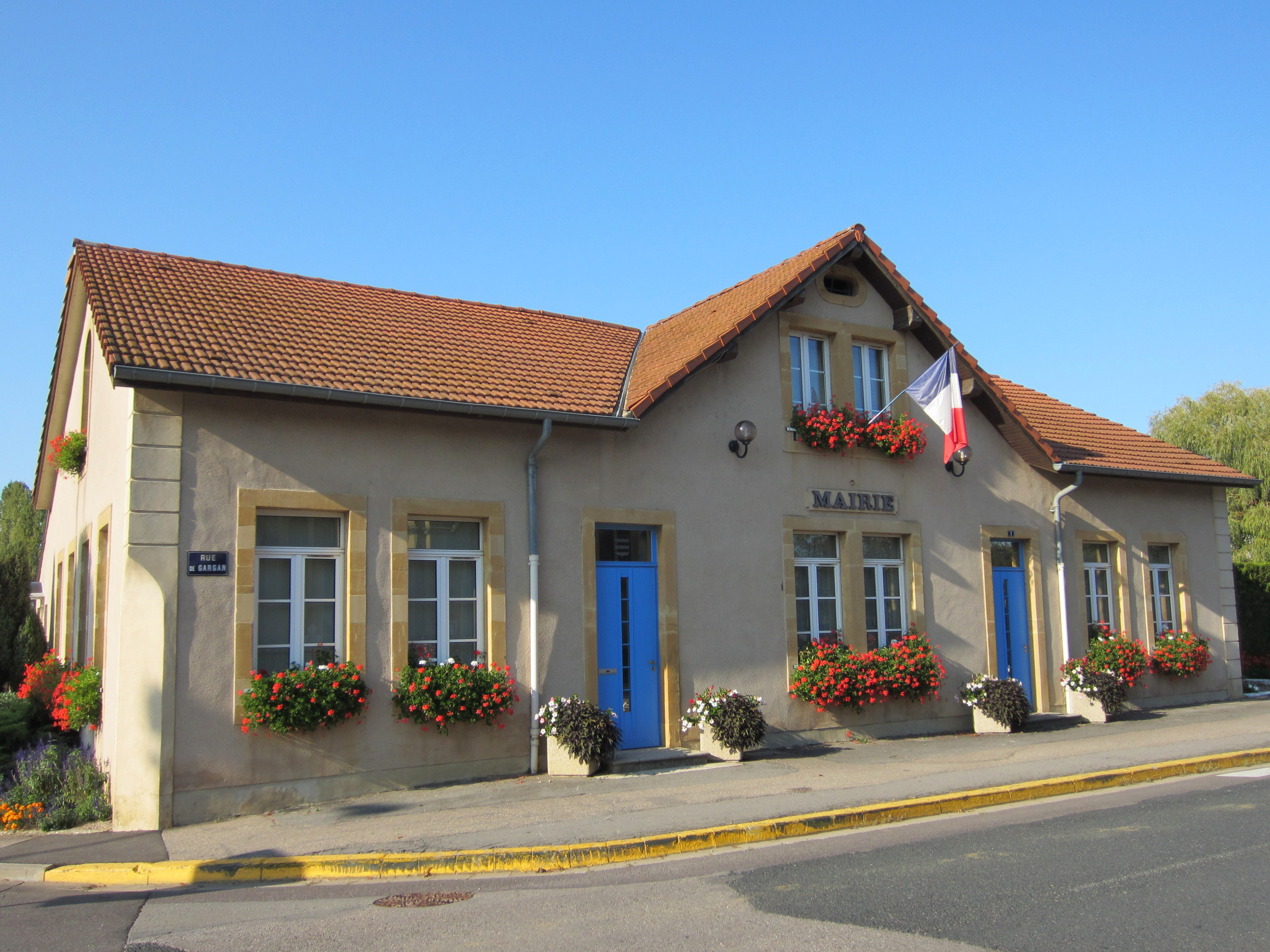 Description mairie Peltre Date30 September 2011Sourcemon appareil photoAuthorAimelaimePermission(Reusing this file) mairie Peltre